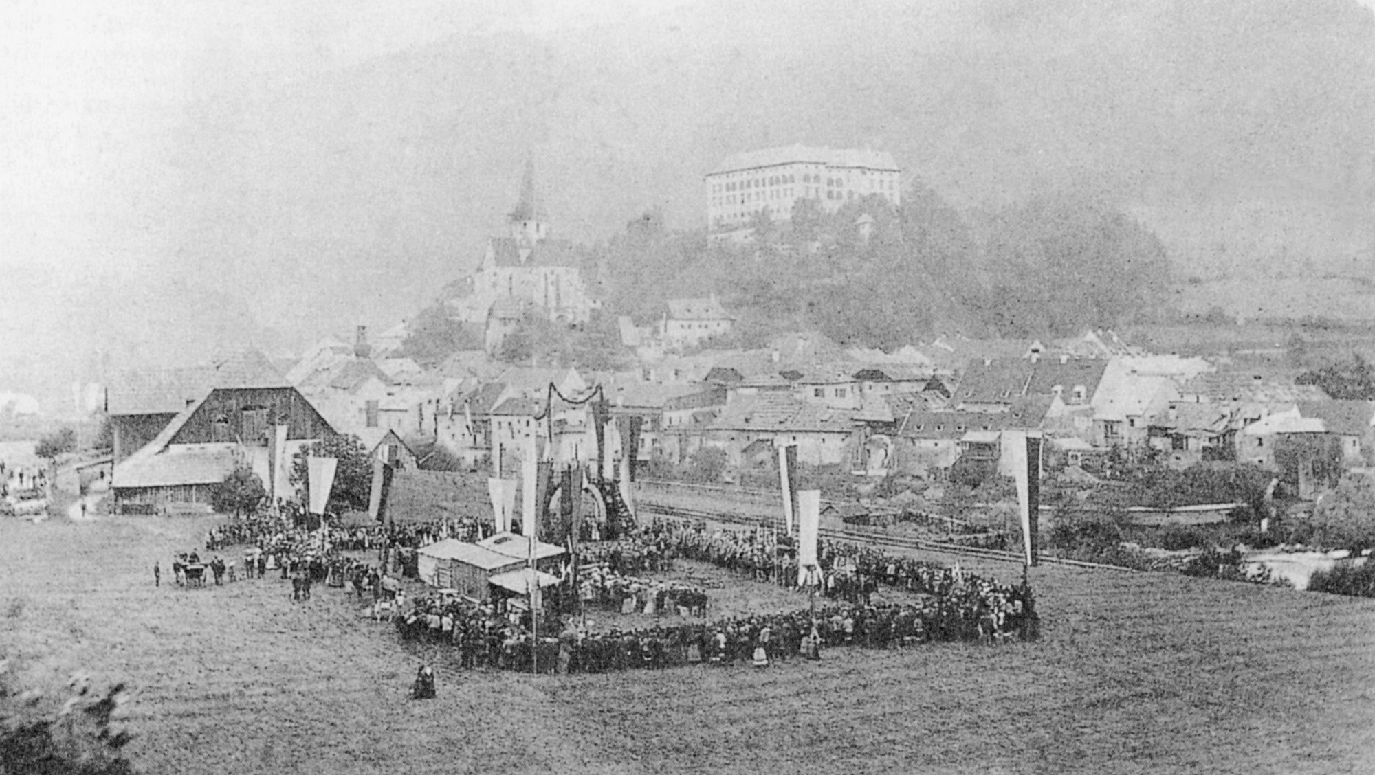 Ground-breaking ceremony of the Murtalbahn in Murau